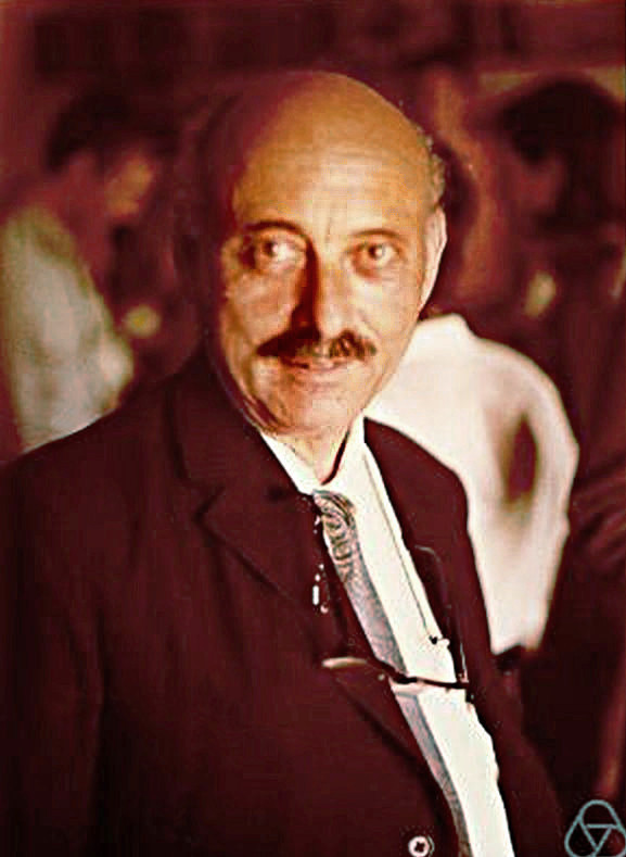 Bernhard H. Neumann, Erlangen 1970